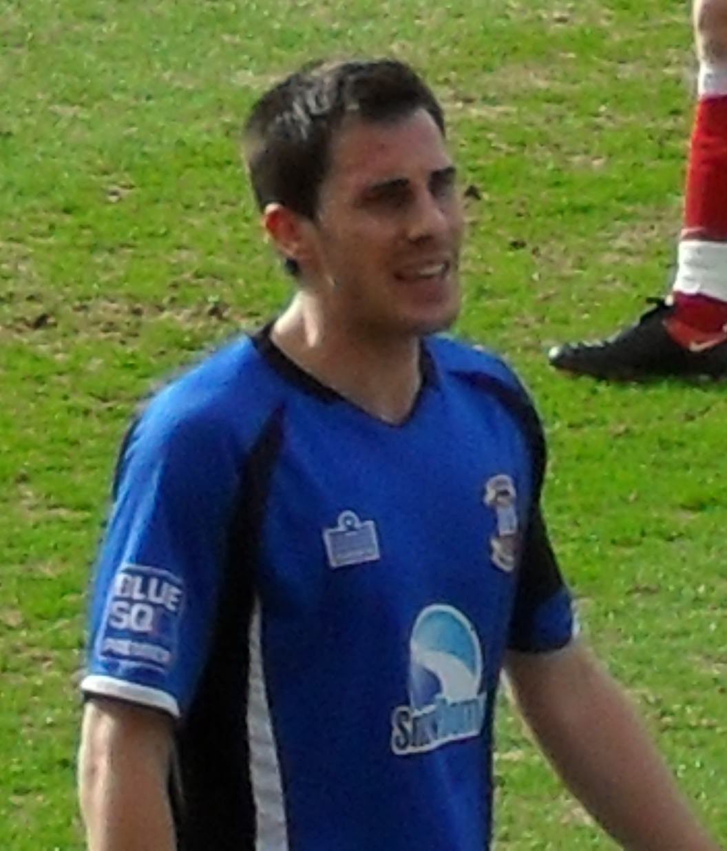 Chris Smith playing for Tamworth against York City at Bootham Crescent, York on 27 March 2010